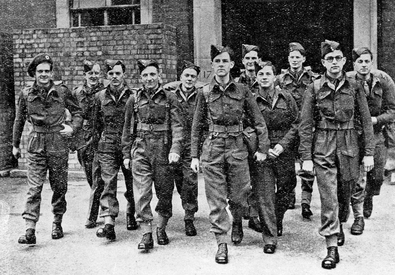 Michael John Hargrave and colleagues. Hargrave is second from the right. The other students are G. Woodwark, D. Wells, R. Barton, E. Trimmer, R.E. Citrine, K.C. Easton, A.D. Moore, J.R.E. Jenkins, D.P. Bowles and L.K. Garstin